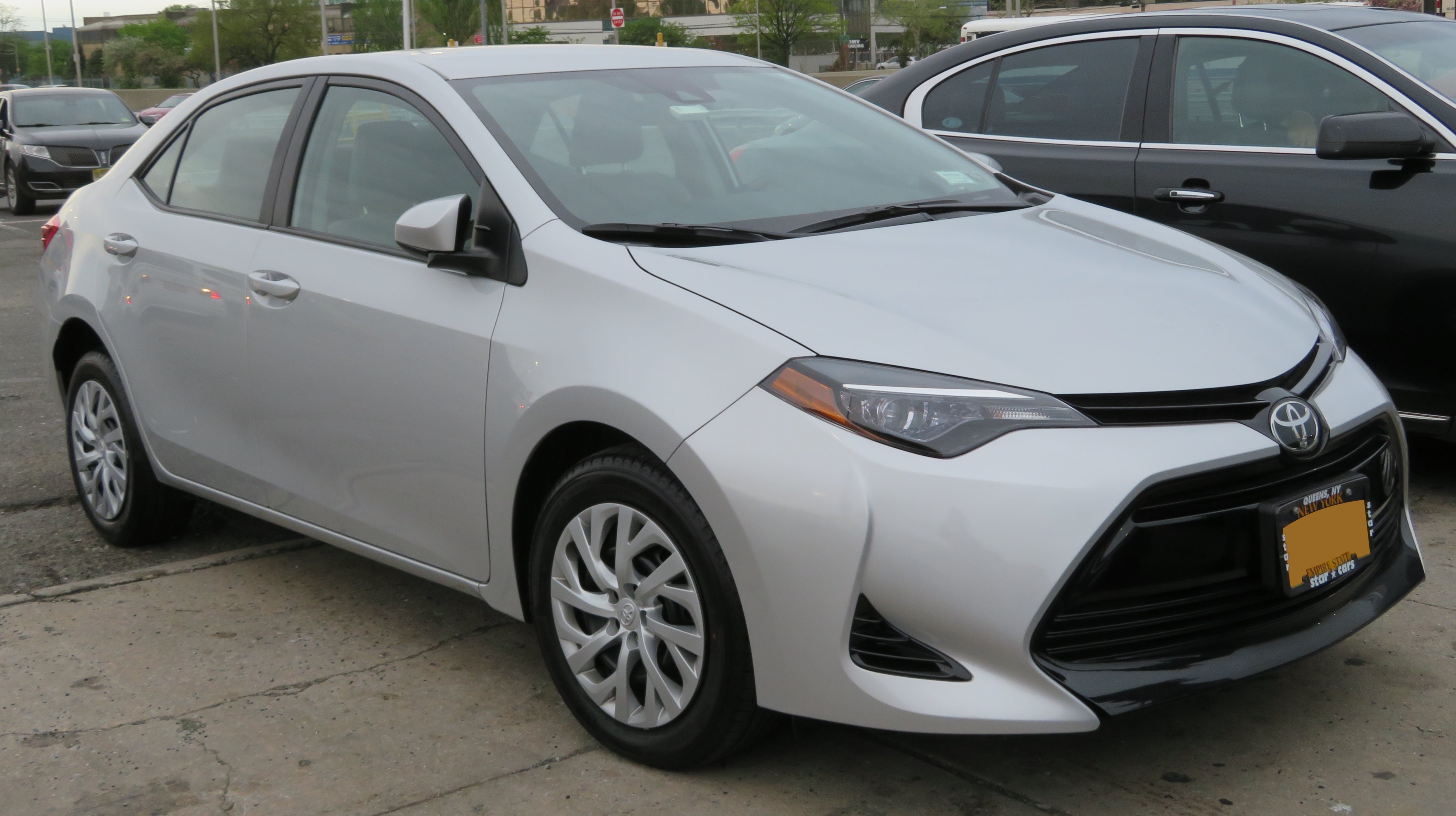 In Queens, New York